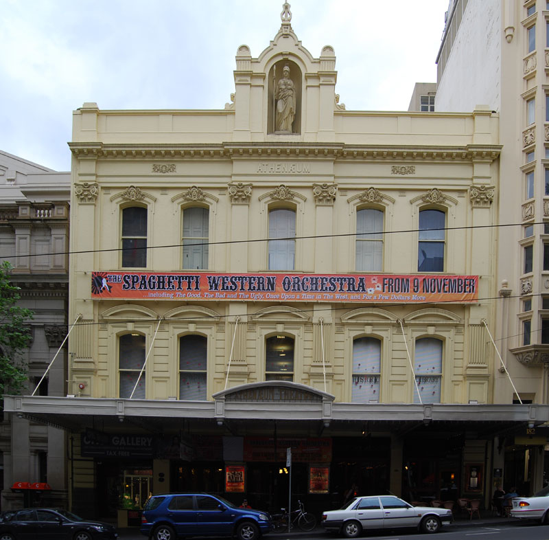 The Athanaeum Theatre and Historic Library in Melbourne, Australia